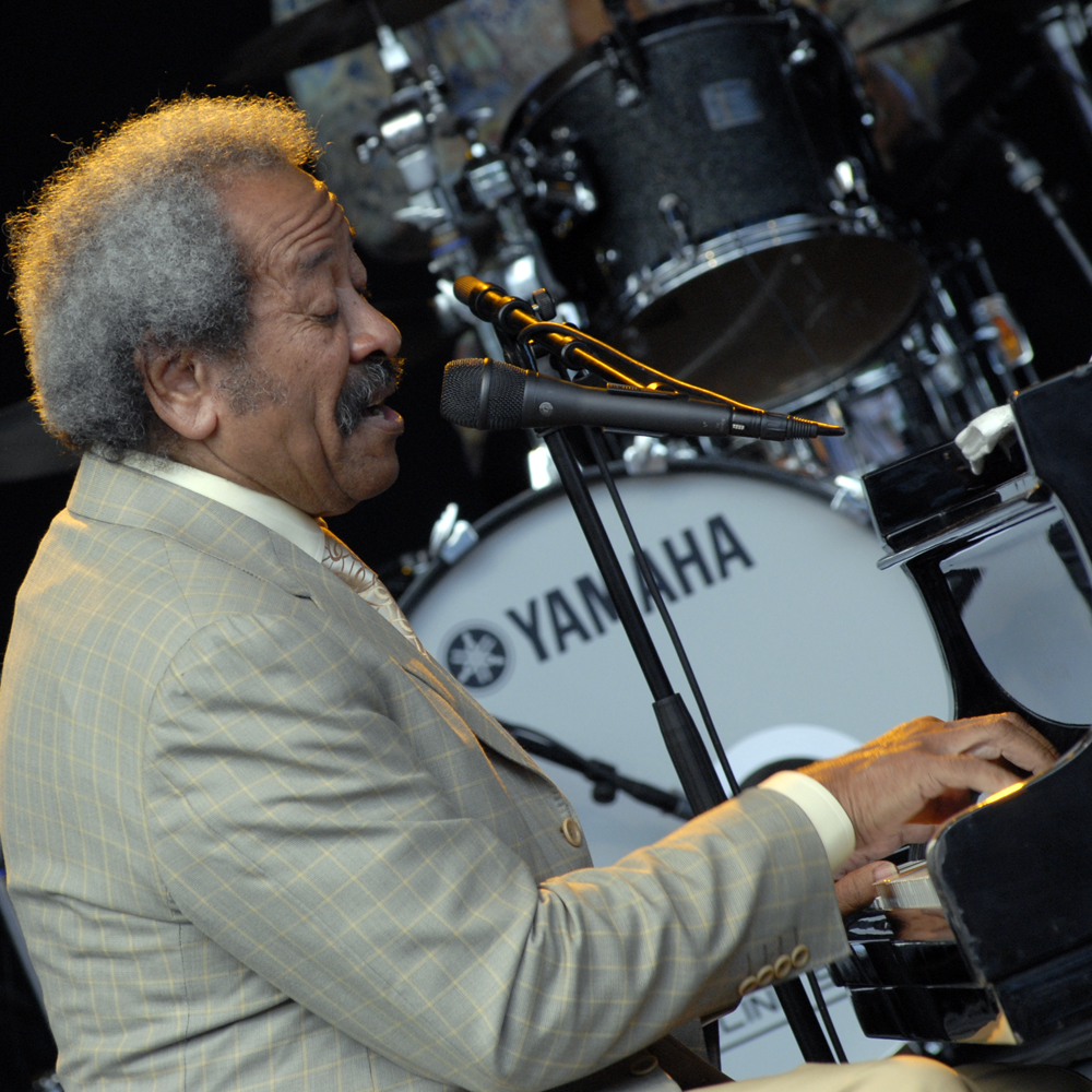 Allen Toussaint performing at StockholmJazzFest09 - an open-air jazz festival in the capital of Sweden.